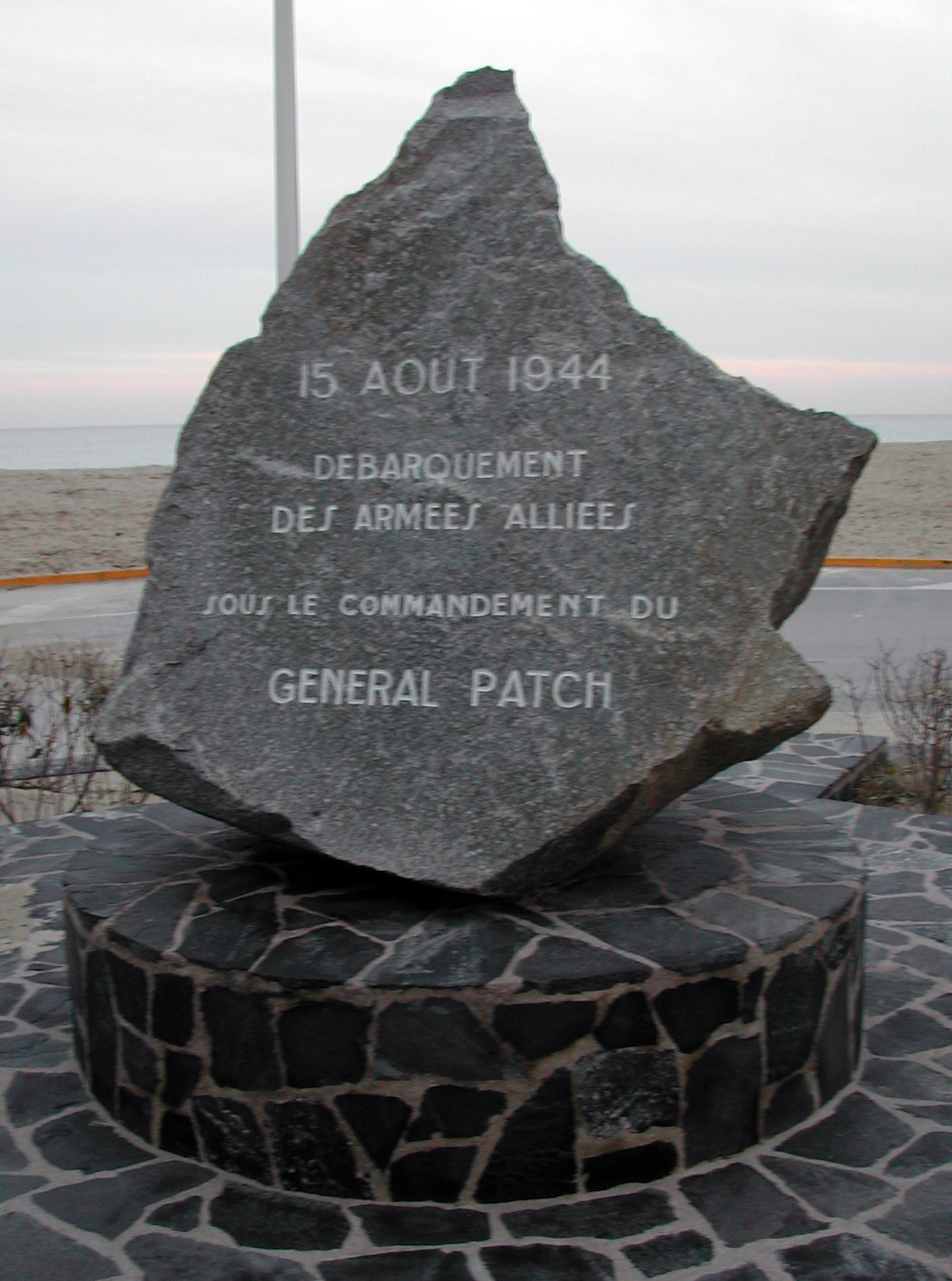 Monument to the landings of Allied troops under General Patch on August 14, 1944. Located on the beach of Pampelonne (Ramatuelle) near Saint-Tropez, France. Picture taken January 1st 2004.